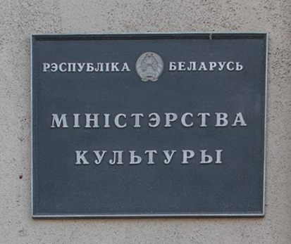 Belarusian ministry of culture sign